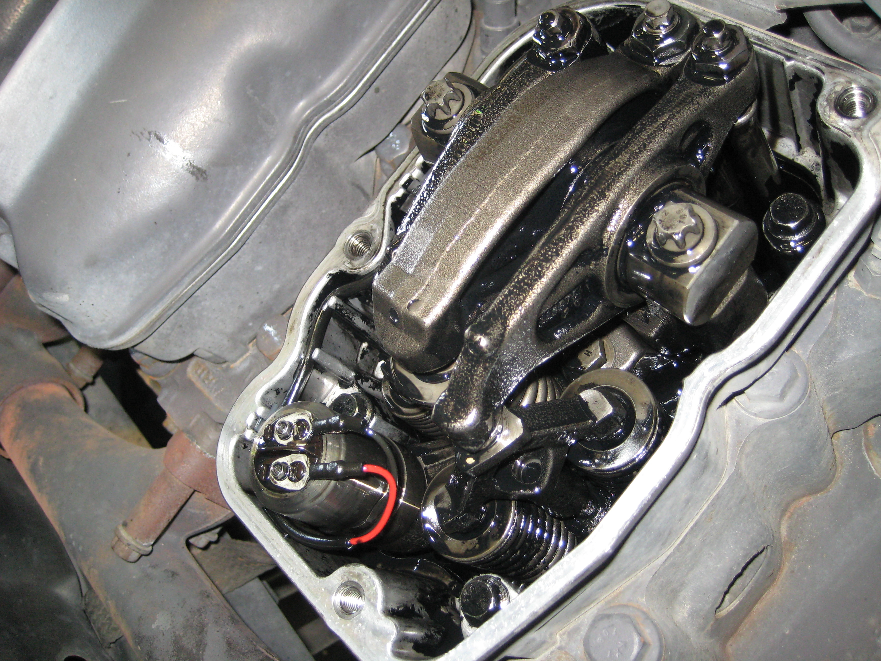 A view of one of the Bosch electronic unit injector fitted to the Scania's R164 15.6 Litre (16L) V8 diesel engine.